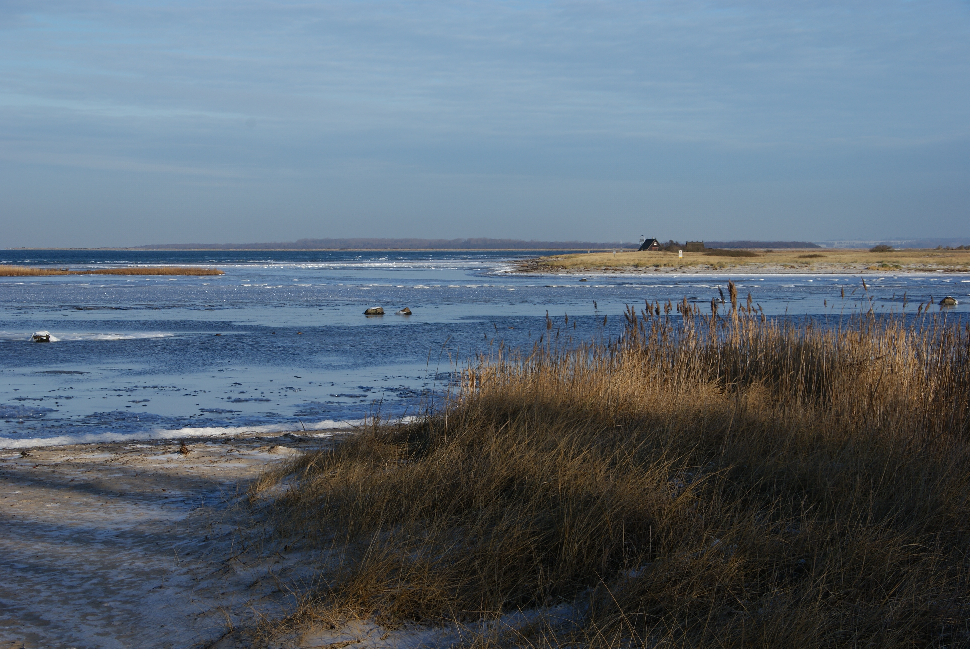 Poel Island (Germany), Baltic Sea, in winter